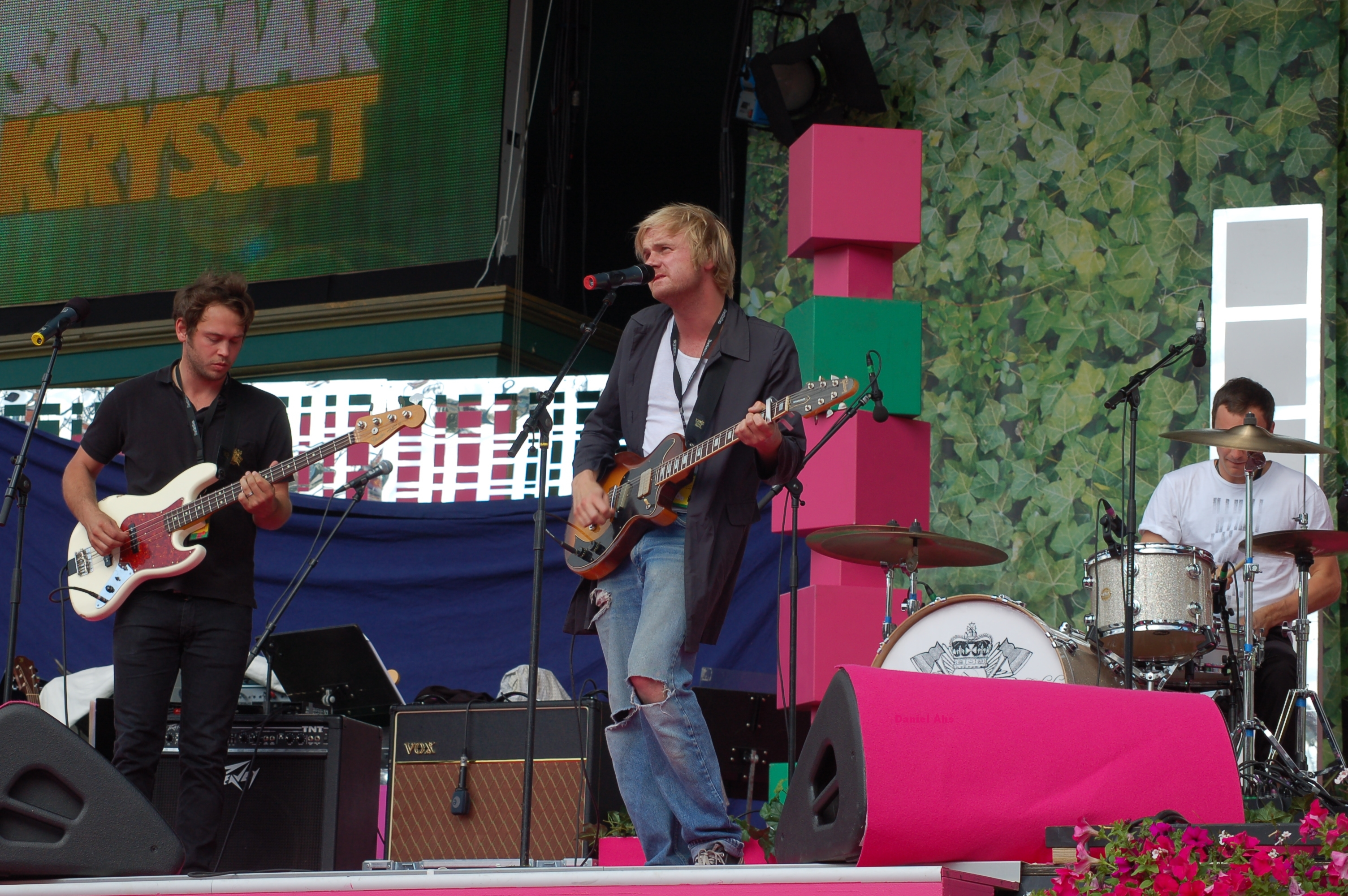 Hästpojken at Gröna Lund, Sommarkrysset